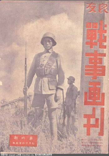 Chinese pictorial front cover, one of the 20 war issues produced by Liangyou magazine.